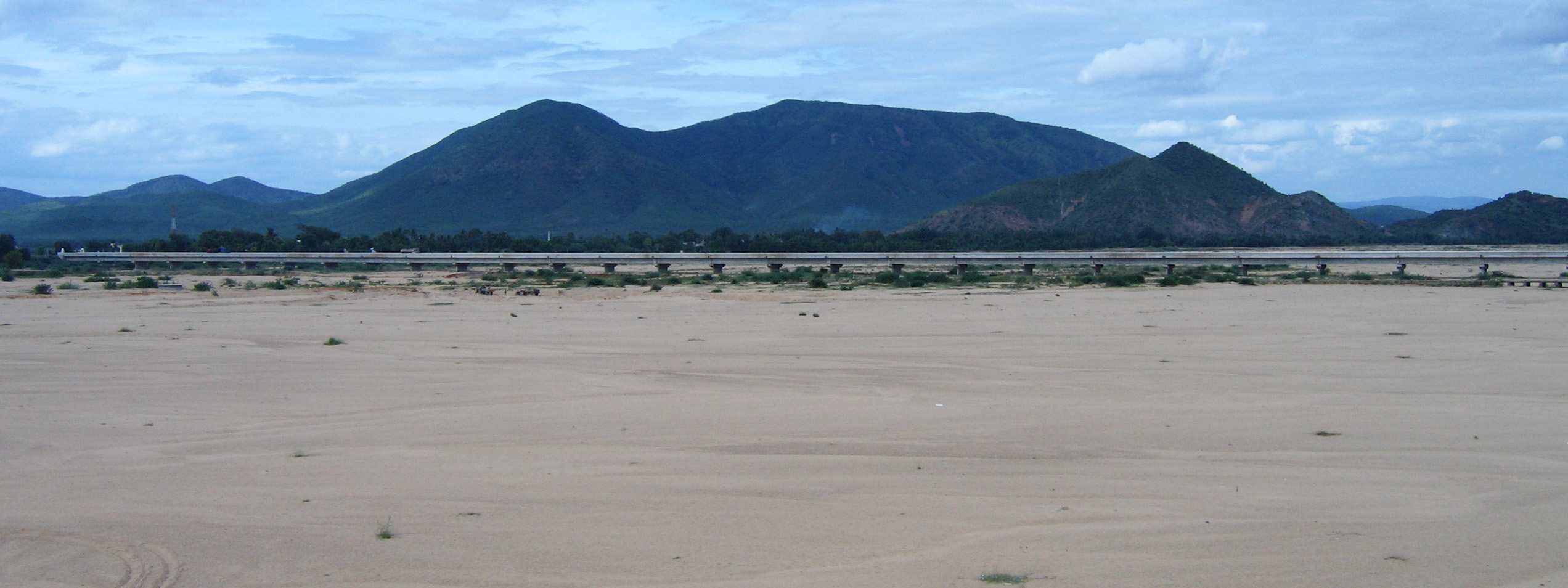 Andhra Pradesh - Landscapes from Andhra Pradesh, views from Indias South Central Railway